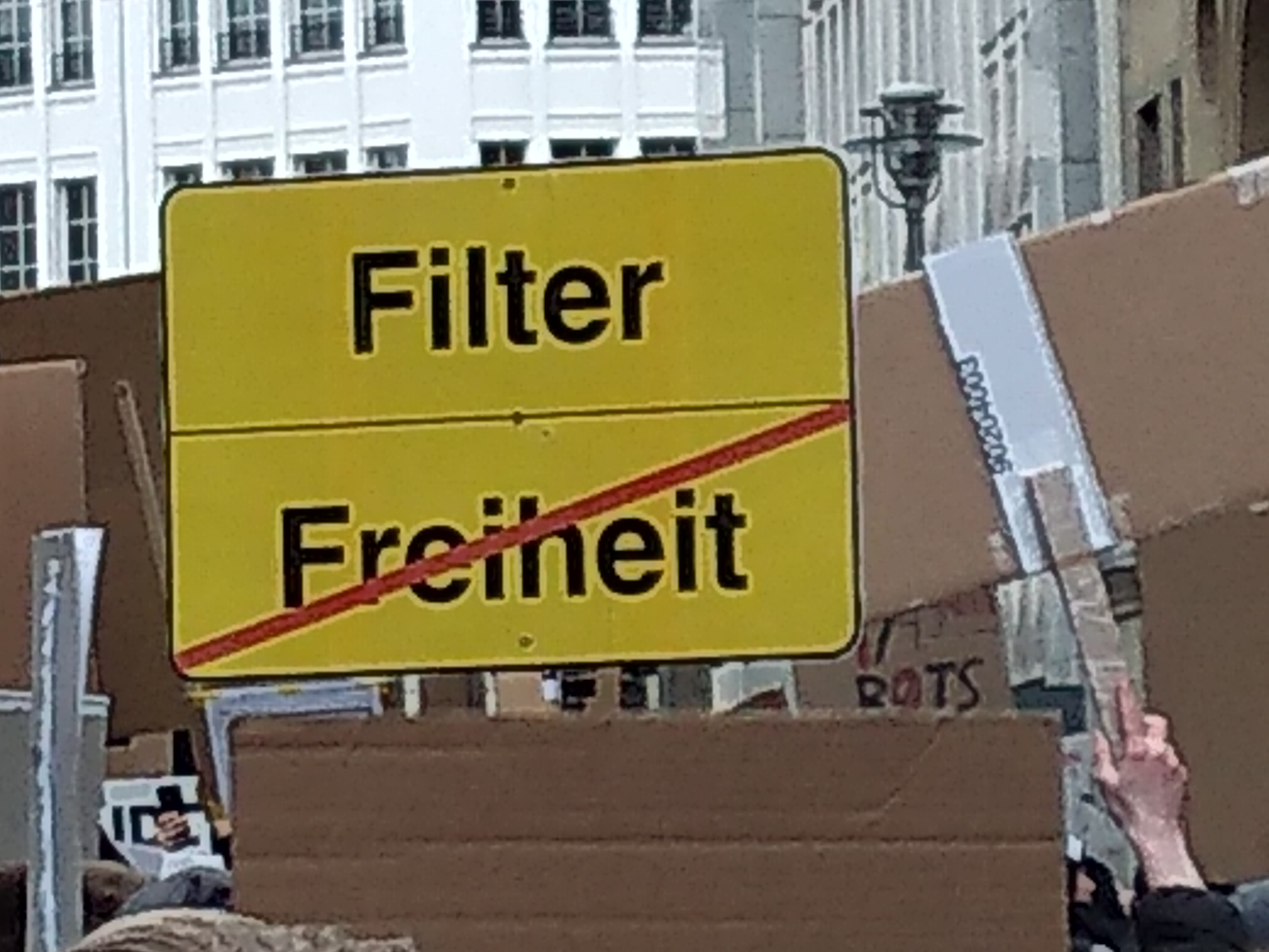 rally against the EU Copyright Directive on 2 March 2019 in Berlin